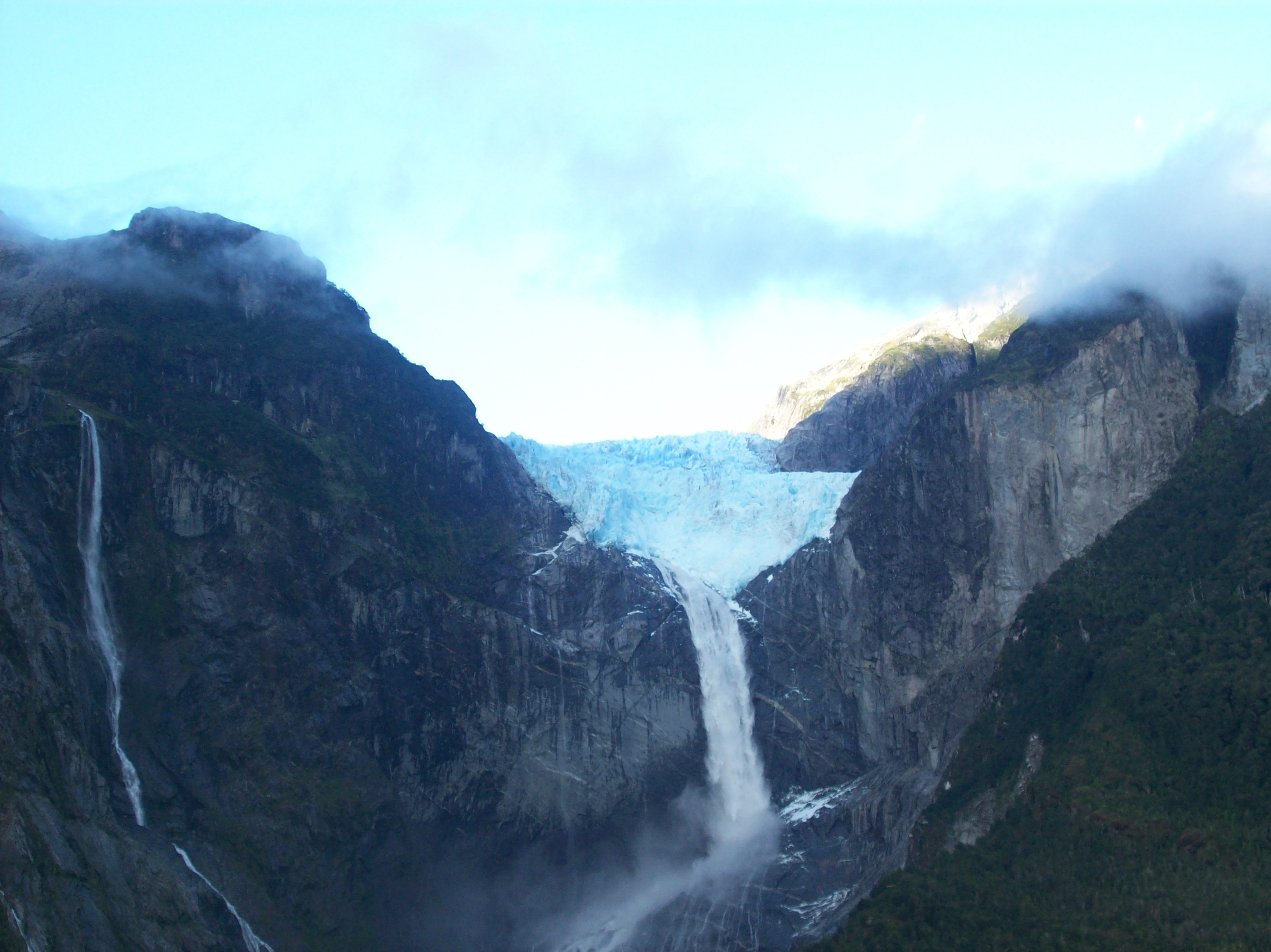 Glaciar Queulat